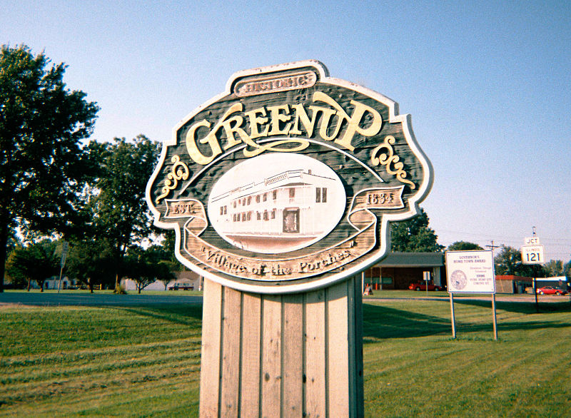 Greenup, IL city welcome sign. Photo taken in 2006, however, the sign has not changed as of 2010. Sign reads: Historic Greenup, Est. 1834, "Village of the Porches".